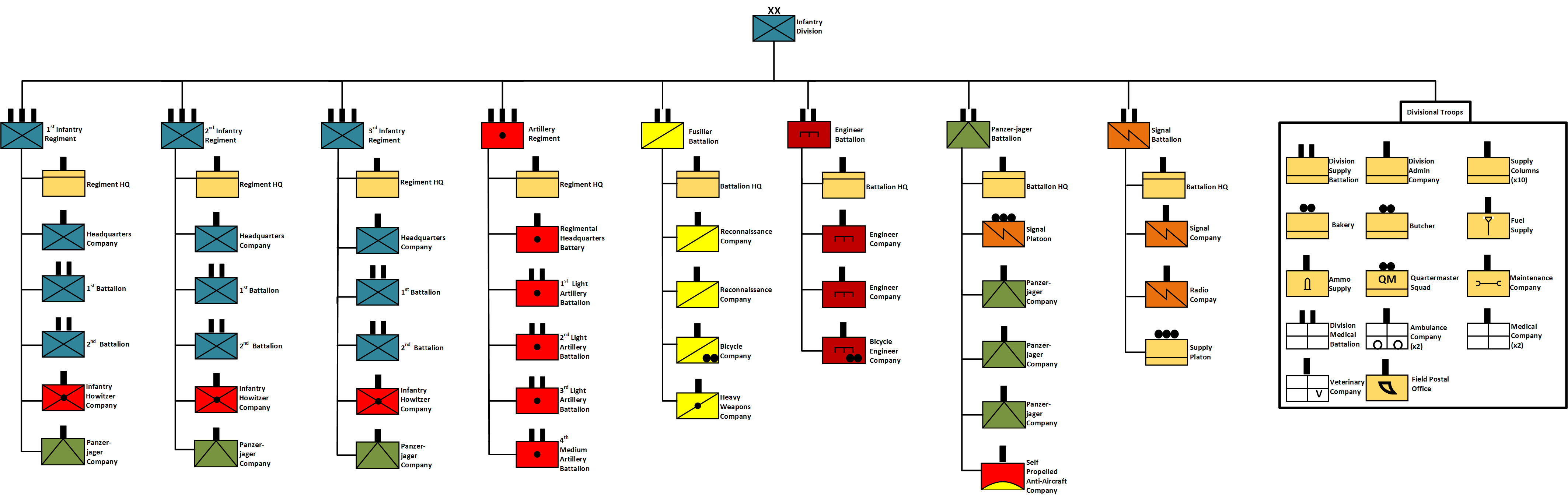 Order of battle graphic representing a 1943 German army infantry division.